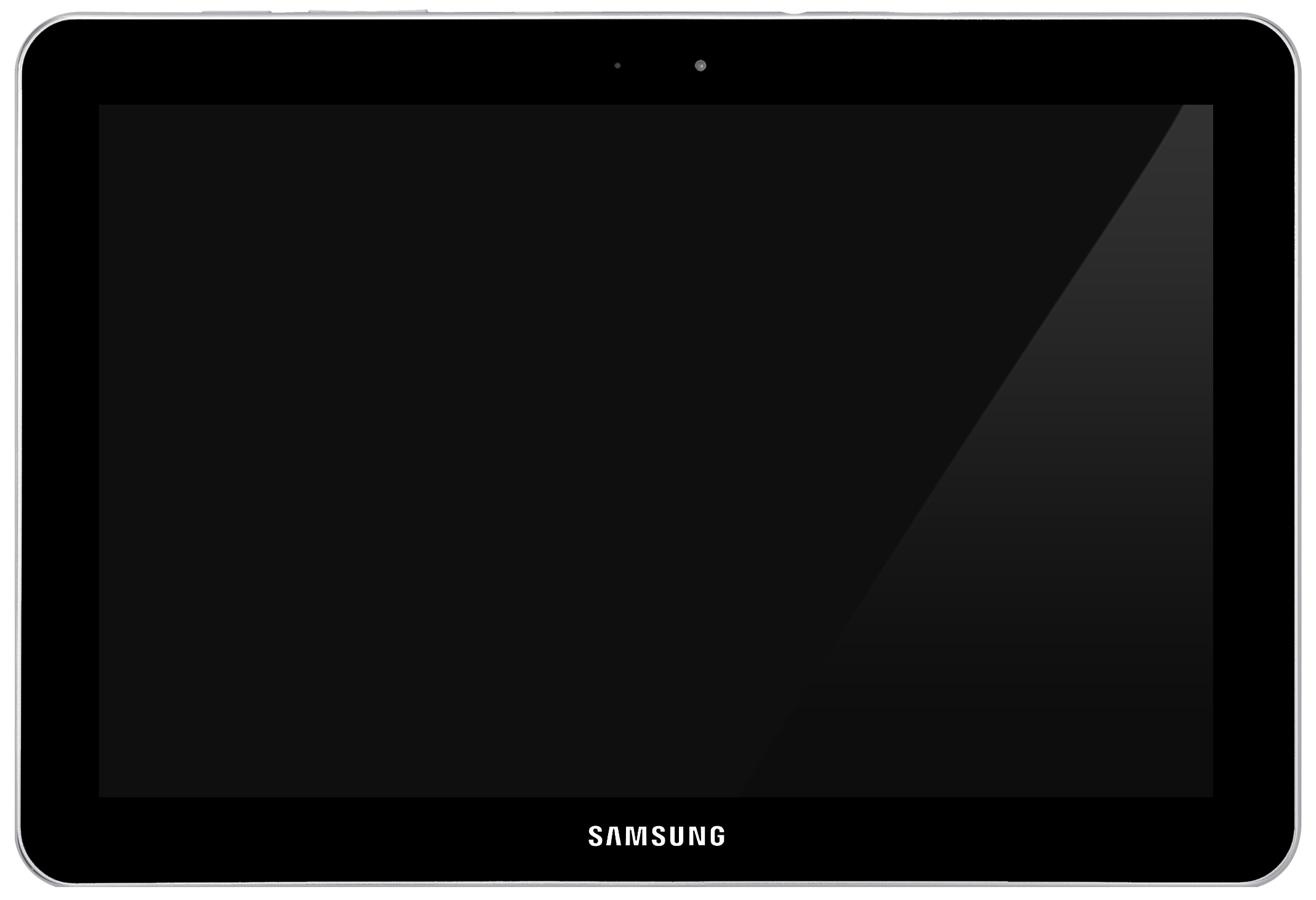 Samsung Galaxy Tab 8.9 render